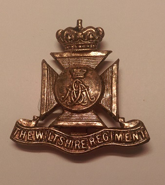 Photo of Wiltshire Regiment Cap Badge from personal collection